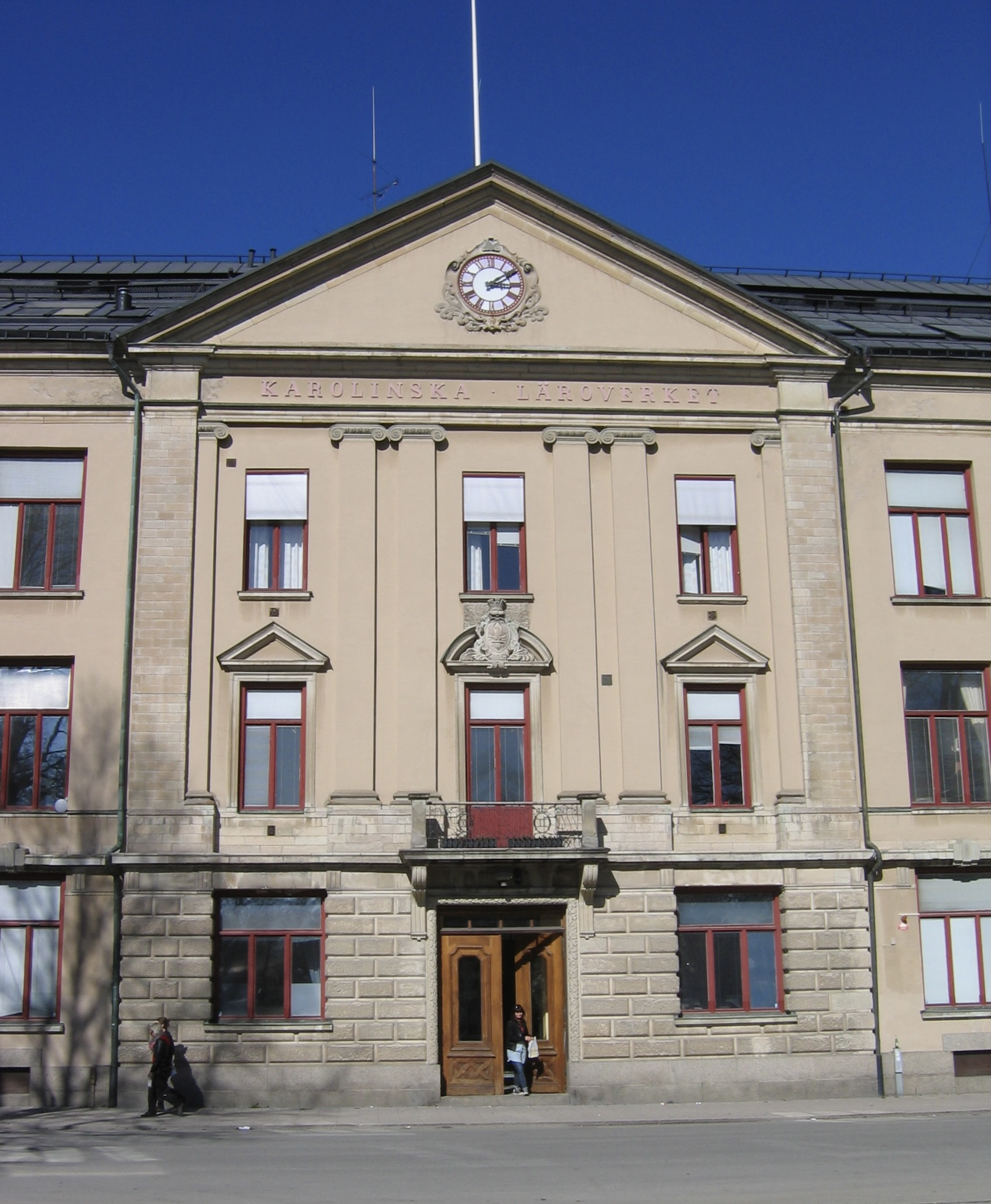 The entrance of the main building of Karolinska läroverket, a Swedish upper secondary school in Örebro. The history of the school goes back to the middle ages; the present main building was erected in 1832.